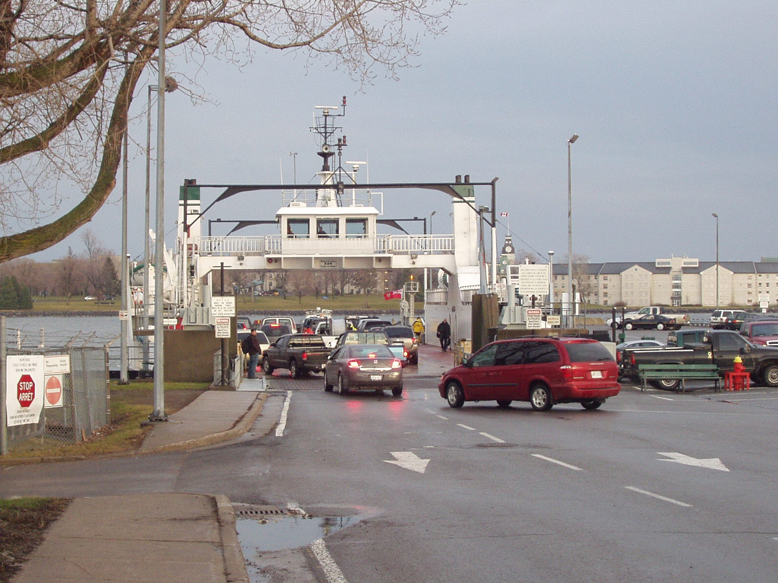 Vehicles loading onto the Wolfe Island ferry in Kingston harbour.